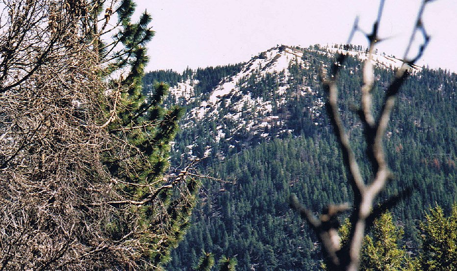 A mountain within Snow Mountain Wilderness, located in Lake Couty, state of California, USA